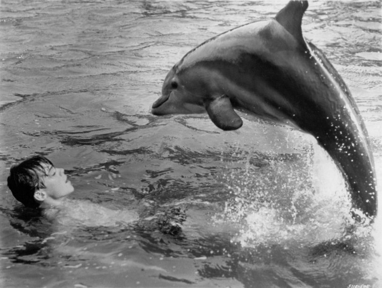 Publicity photo of teen actor Luke Halpin as Sandy Ricks with one of the dolphin performers in the 1964 feature film Flipper's New Adventure.